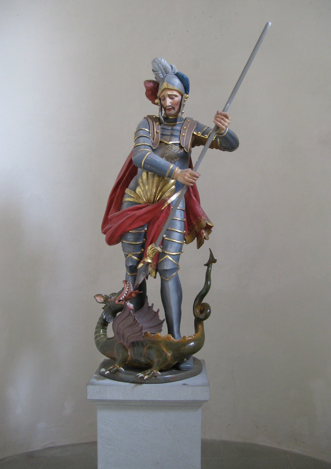 Sculpture of St. George (St. George church, Oberzell, Reichenau, Lake de Constance, Germany)